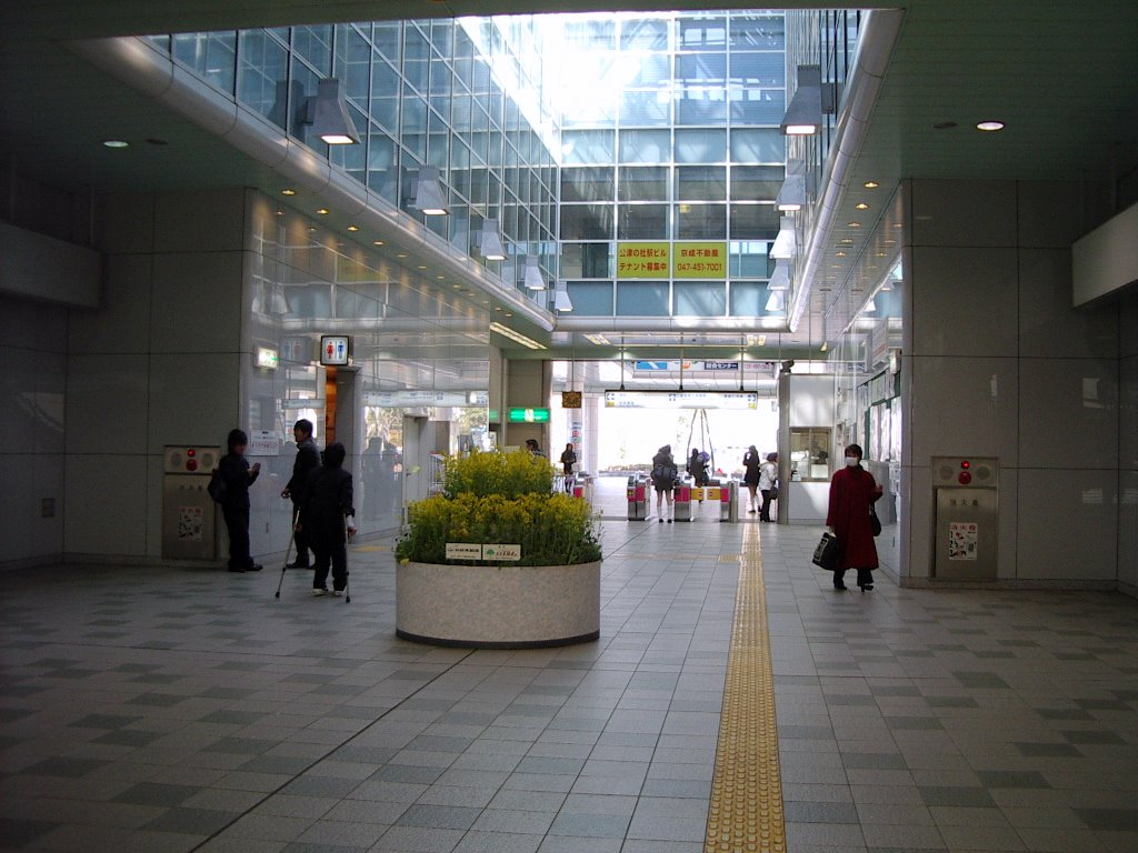 Kōzunomori Station on Keisei Main Line. This station is located at Narita, Chiba.